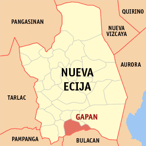 Map of Nueva Ecija showing the location of Gapan City